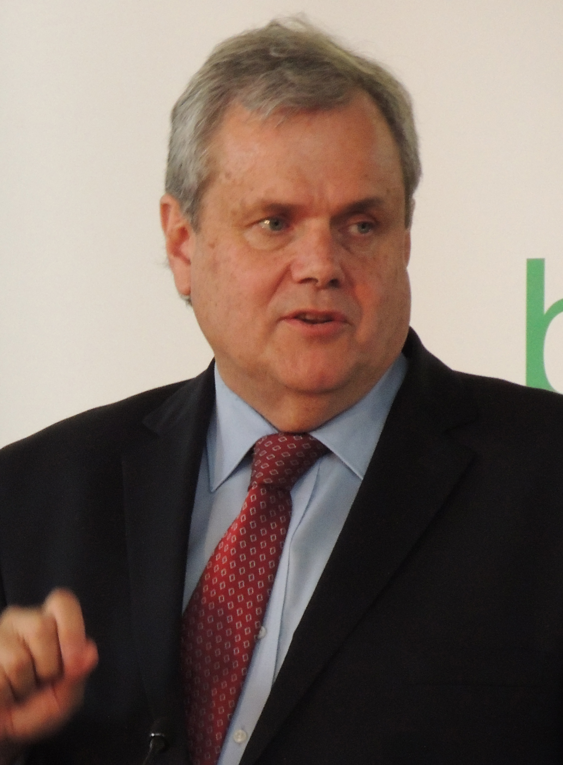 Paul Heithersay speaking at Global Maintenance Upper Spencer Gulf conference, Port Augusta, South Australia